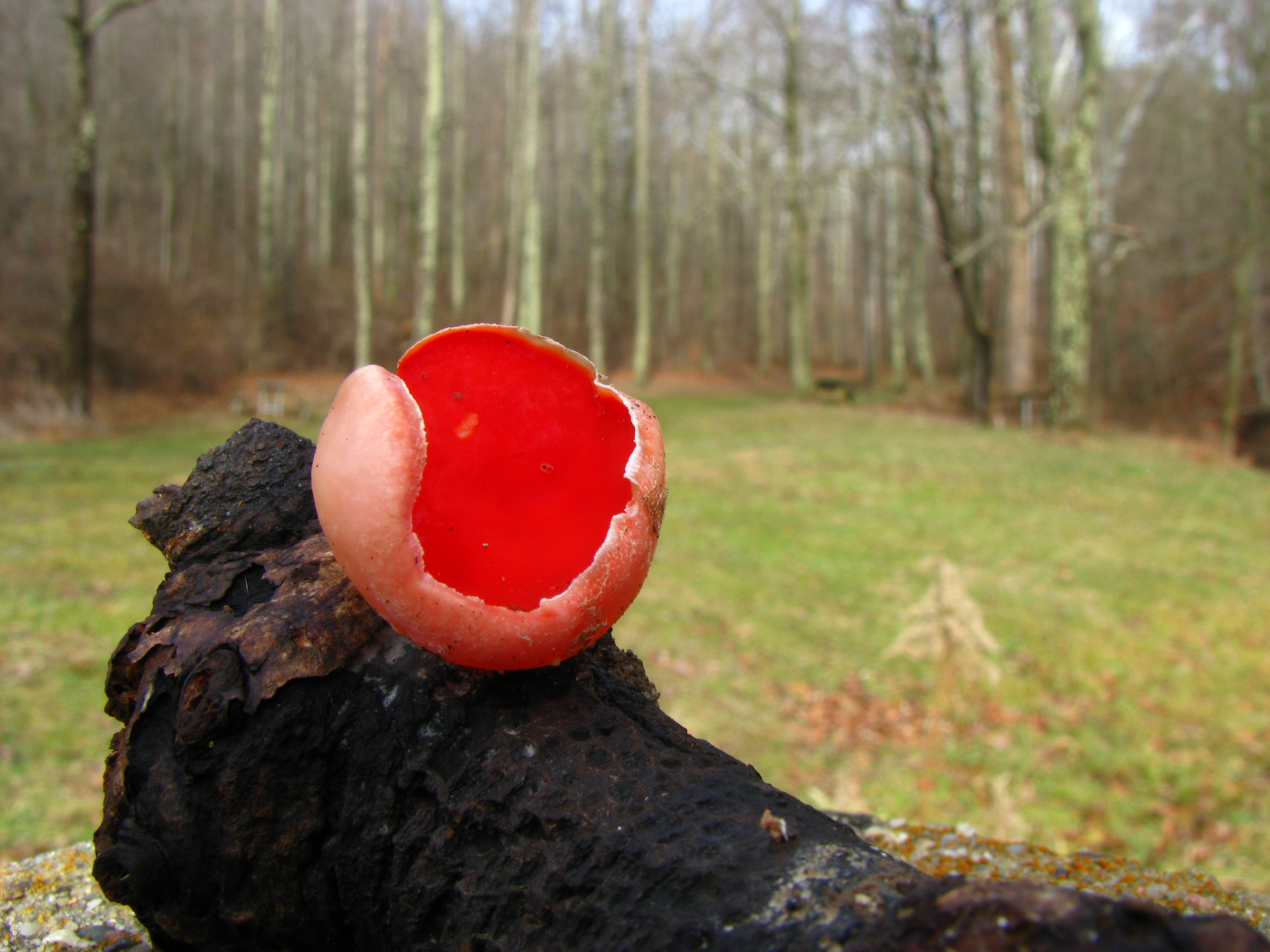 The cup fungus Sarcoscypha dudleyi (Peck) Baral. Specimen photographed in Strouds Run State Park, Athens, Ohio, USA.